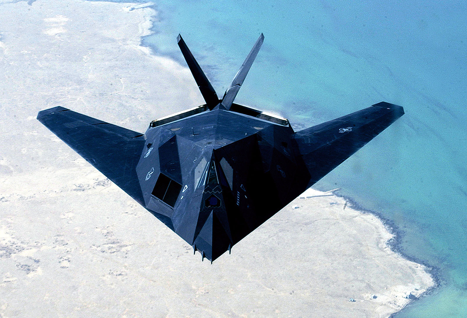 An F-117 Nighthawk from the 8th Expeditionary Fighter Squadron out of Holloman A.F.B., NM, flies over the Persian Gulf